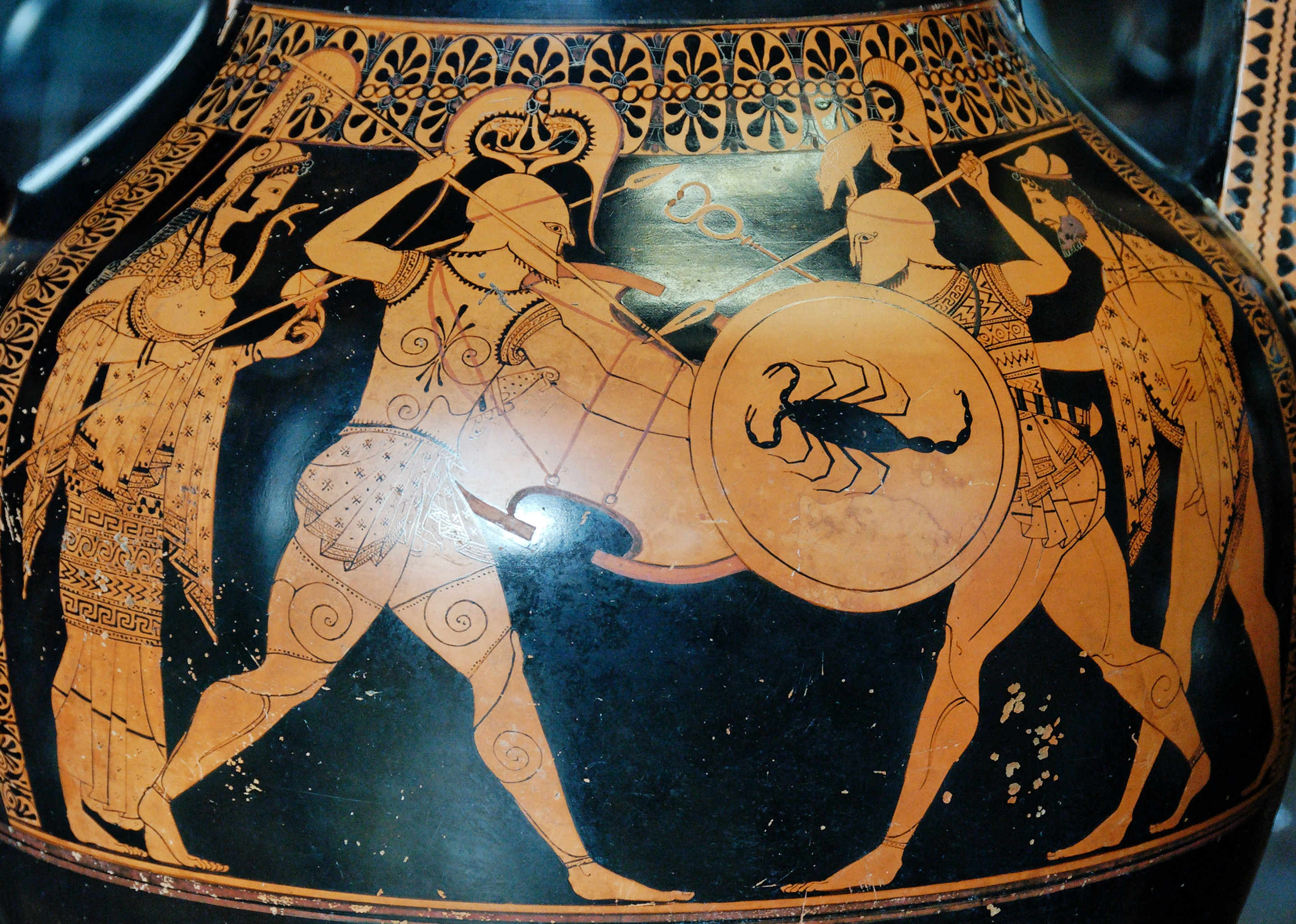 Fighters with Athena and Hermes. Side A from an Attic red-figure amphora, ca. 530 BC. From Vulci.